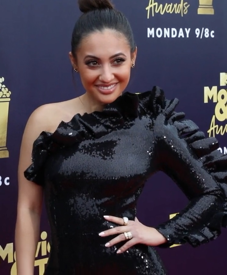 Francia Raisa at 2018 MTV Movie & TV Awards